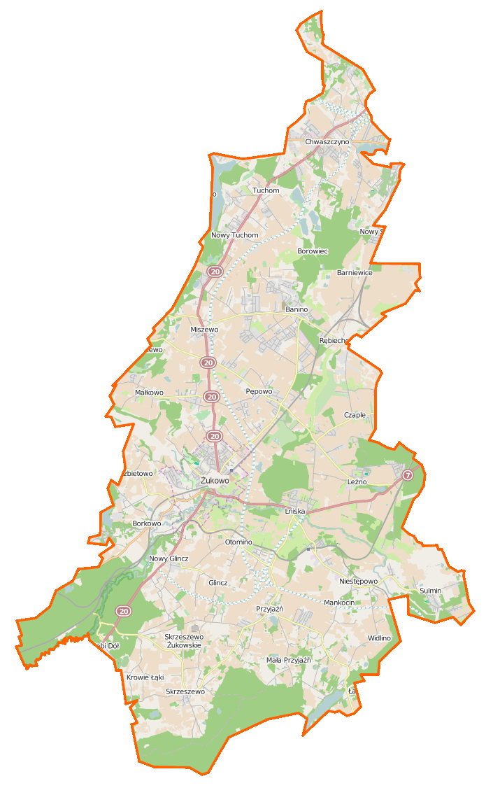 Map of Gmina Żukowo, Poland This map of Żukowo (gmina) was created from OpenStreetMap project data, collected by the community. This map may be incomplete, and may contain errors. Don't rely solely on it for navigation.